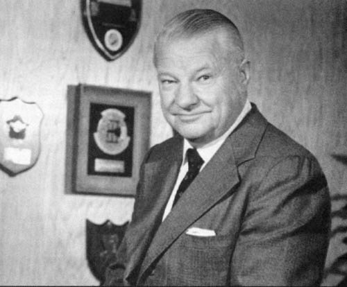 Portrait of Clarence Leonard "Kelly" Johnson (Lookheed Skunk Works chief engineer and vice president)